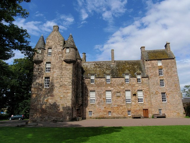 Kellie Castle